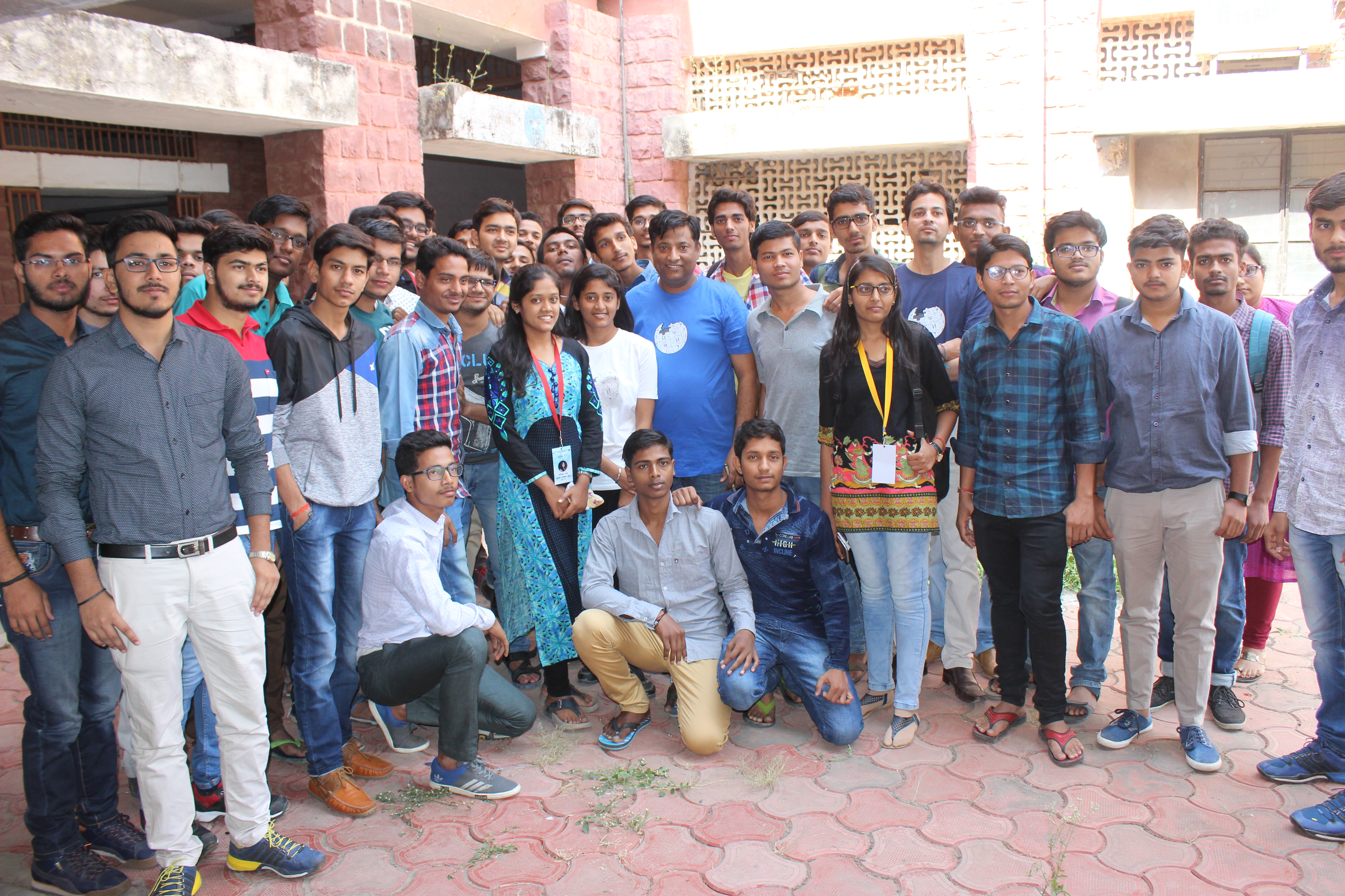 Toorynaad 2017 Workshop